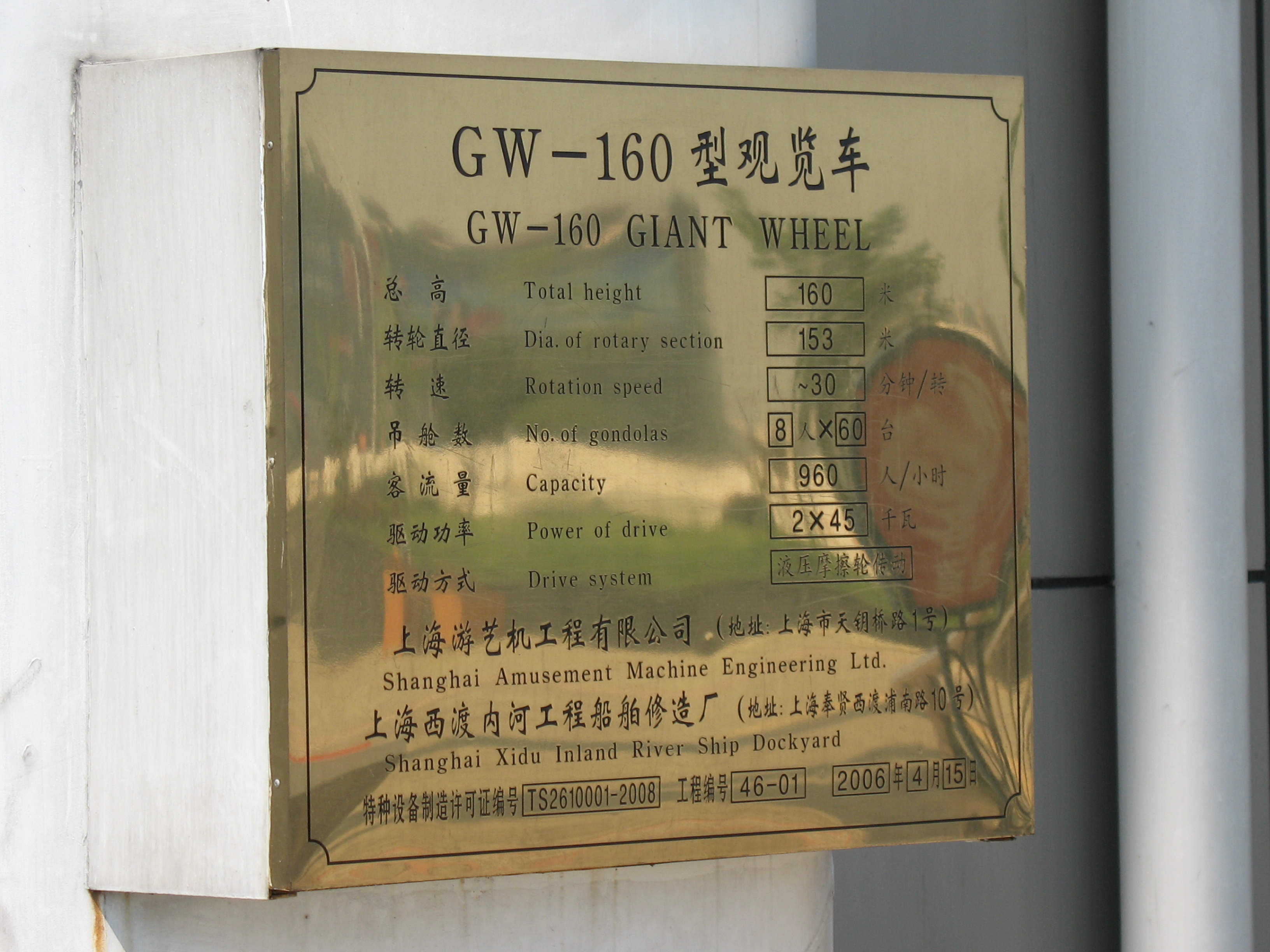 Specifications from plaque at base of the Star Of Nanchang Ferris Wheel, in Nanchang, Jiangxi, China.